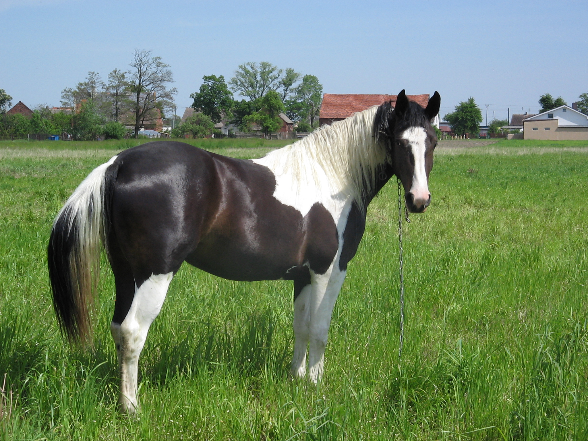 Horse- Dziuplina (poland)